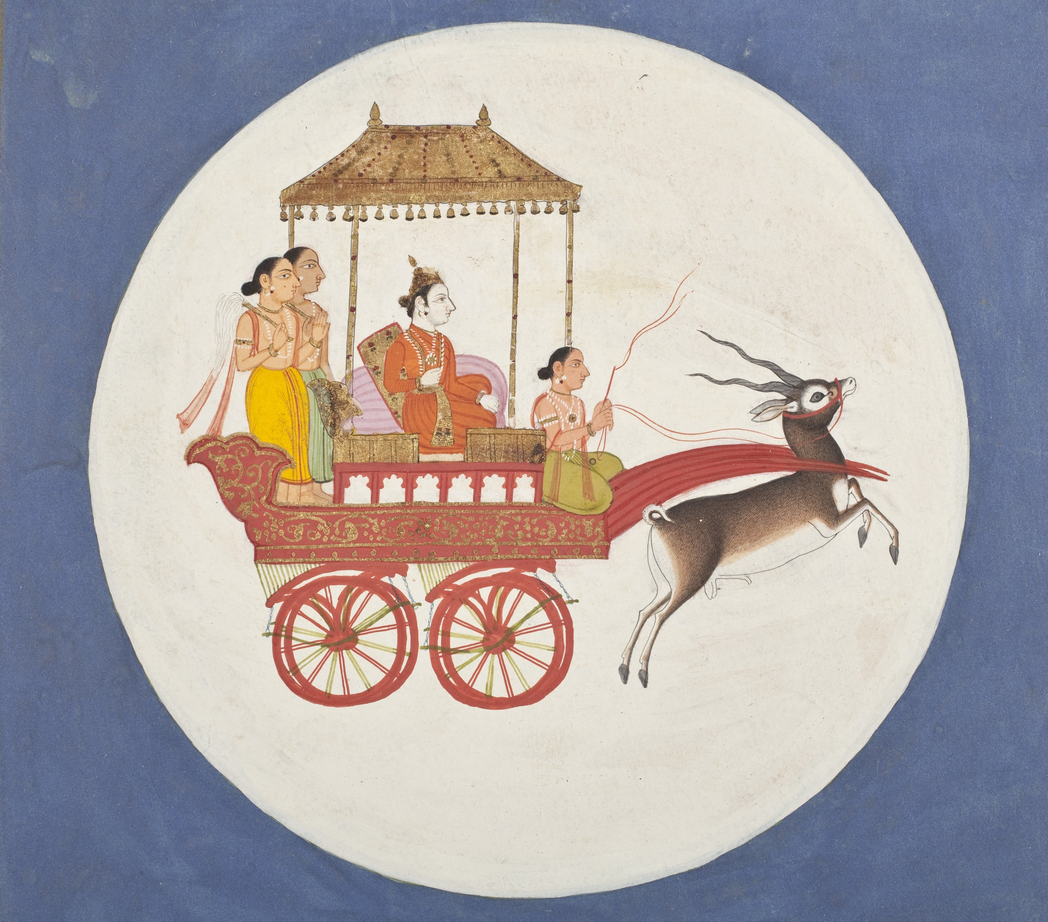 India, Rajasthan, Mewar, Udaipur, 1700-1725 Drawings; watercolors Opaque watercolor, gold, and ink on paper Gift of Paul F. Walter (M.83.219.2) South and Southeast Asian Art